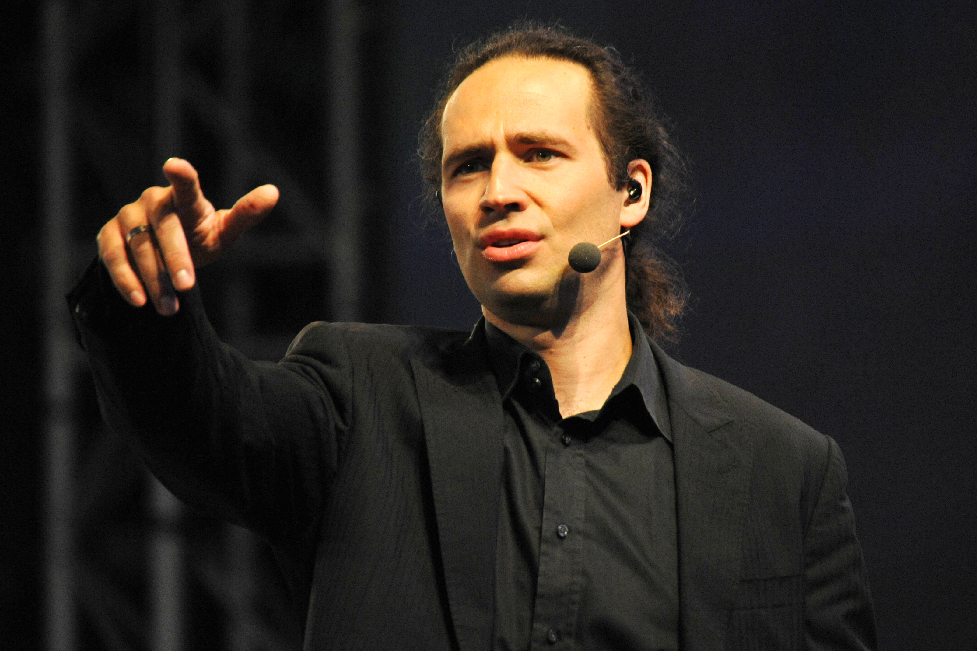 Edzard Hüneke (“Eddi”), member of the german a capella group “Wise Guys” during the "Tanzbrunnen 2009" open-air concert in Cologne, Germany.